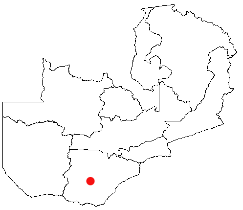 Kalomo, Zambia Location Map; created with the GIMP.